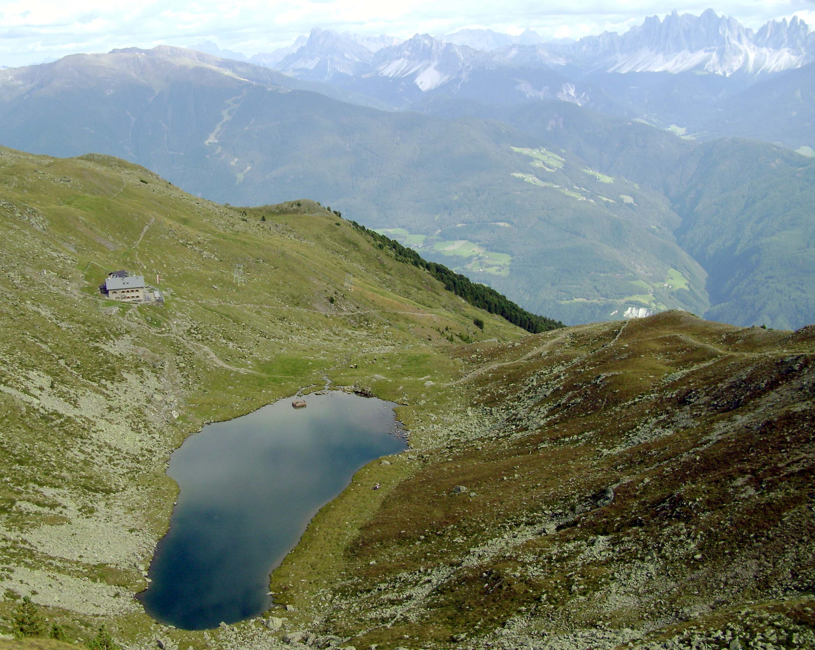 Radlsee, Radlseehütte, seen from Königsangerspitze. Background: Dolomites (Geislergruppe/Odle)